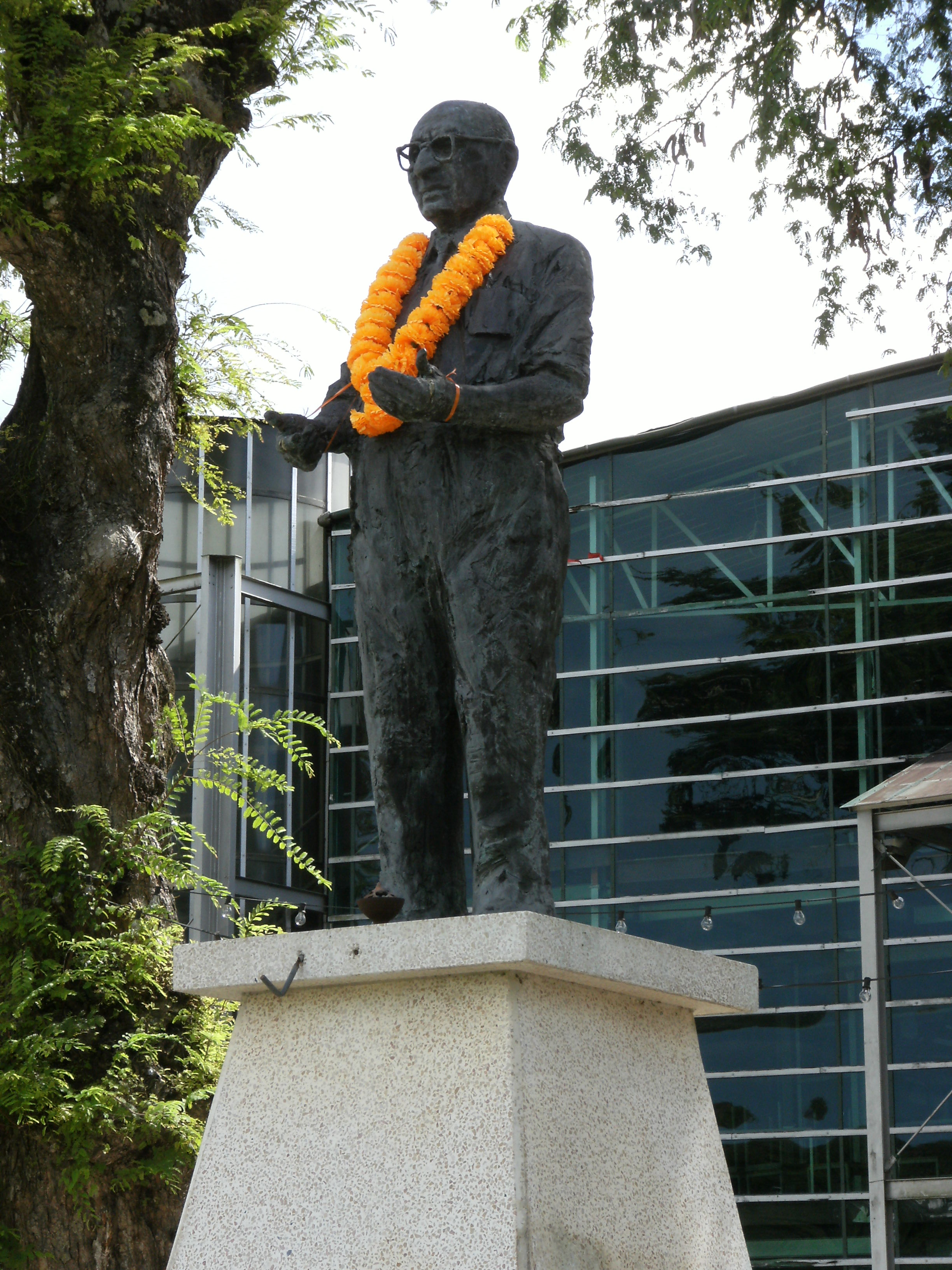 Statue for Jagernath Lachmon.